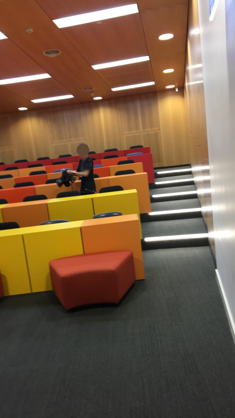 Lecture theatre at GSSHS located above the performing arts theatre.